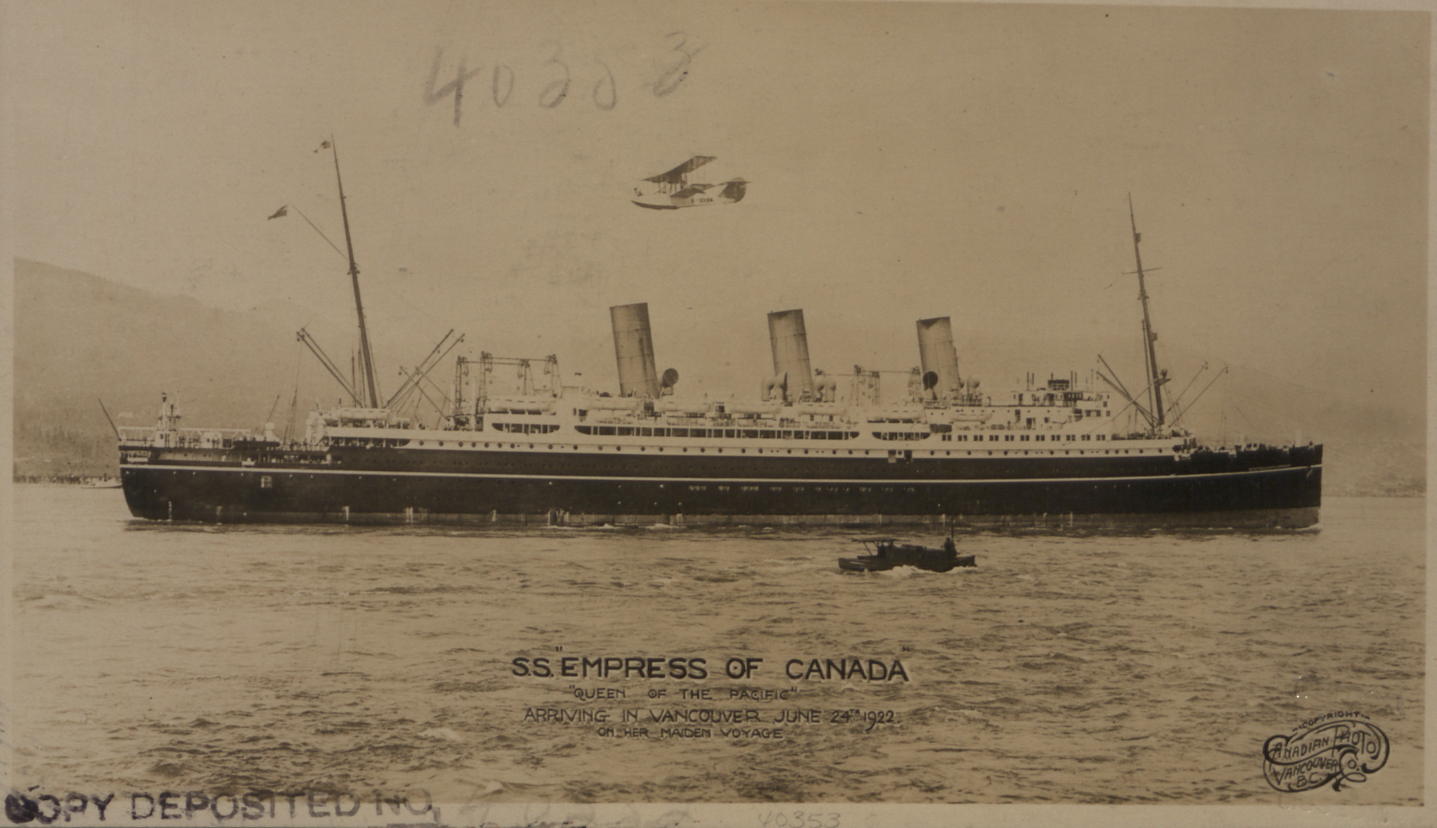 S.S. "Empress of Canada".